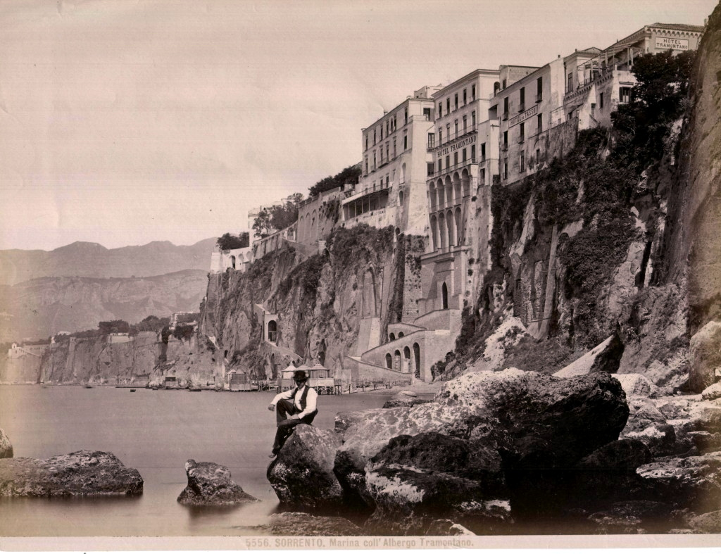 Giorgio Sommer (1834-1914) - "Sorrento - Seaside and Hotel Tramontano". Catalogue # 5556. (Possibly this image is misattributed, according with the font and the catalogue number it might rather be by Giacomo Brogi.